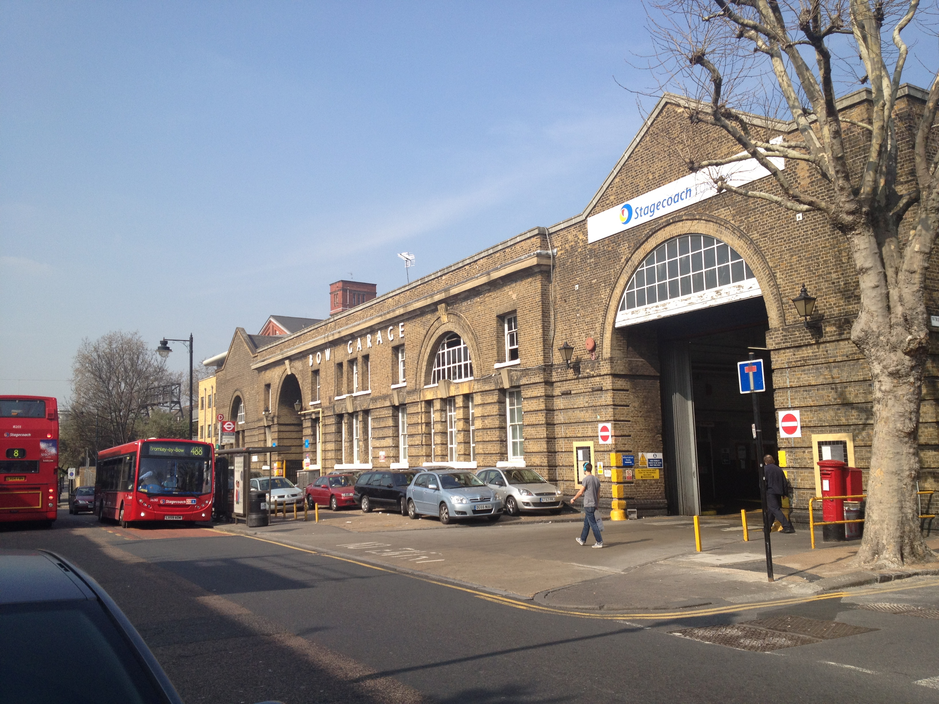 Bow Omnibus Depot, in East London. A principle bus garage and operational hub for London buses, with a vehicle capacity of 114 buses.